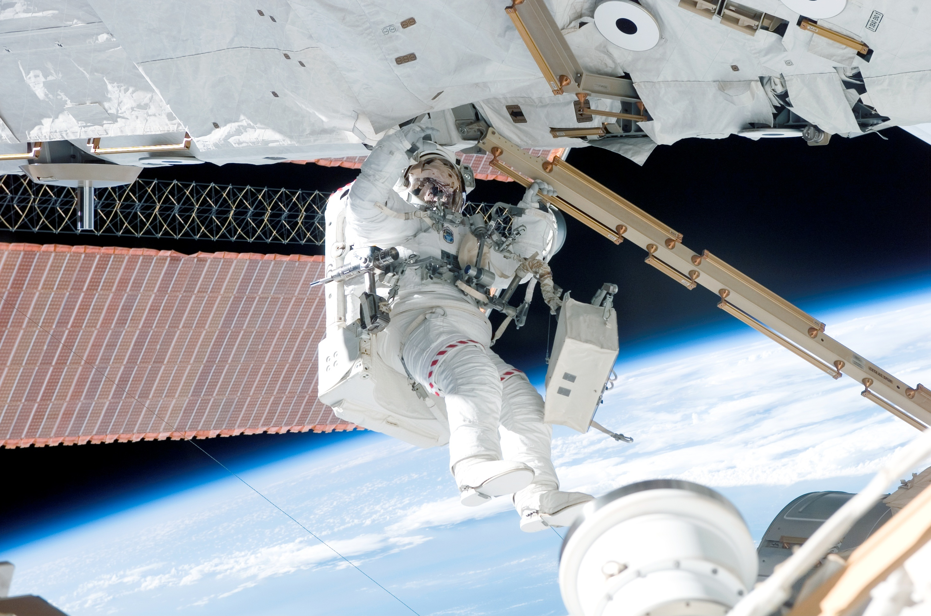 Astronauts Steven Swanson and Patrick Forrester (out of frame), removed all of the launch locks holding the 10-foot-wide solar alpha rotary joint in place and began the solar array retraction. (Credit NASA)